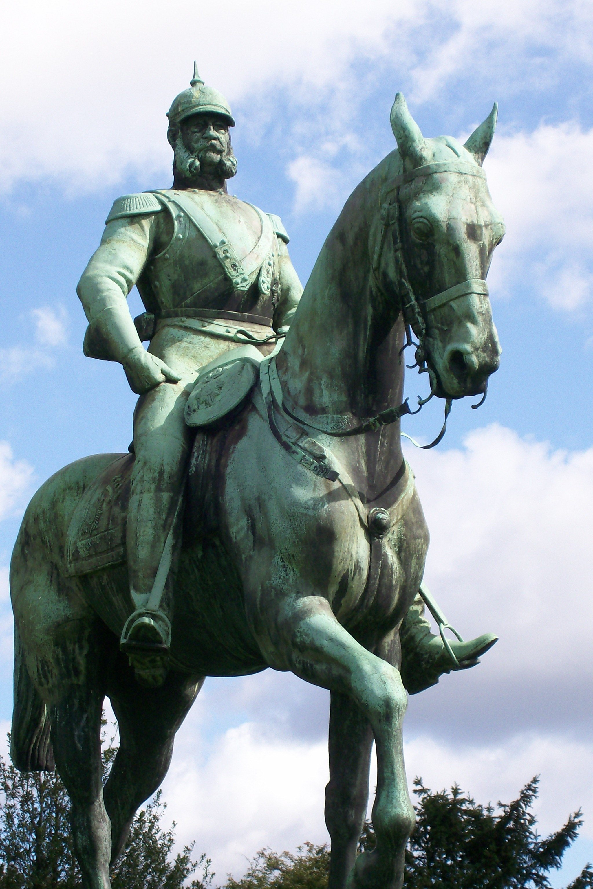 Statue of Wilhelm I of Germany in Lübeck